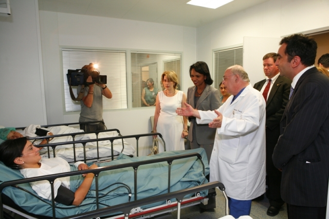 Secretary of State Condoleezza Rice in the Tbilisi Central Hospital, meeting with a journalist injured during the war with Russia.